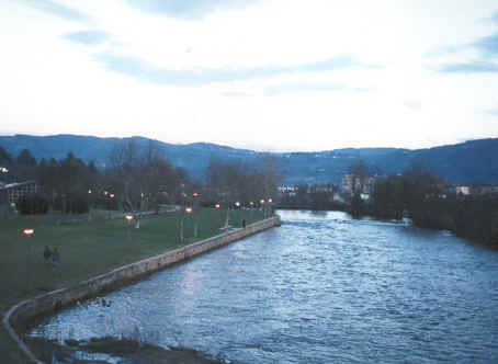 Tâmega river in Chaves.